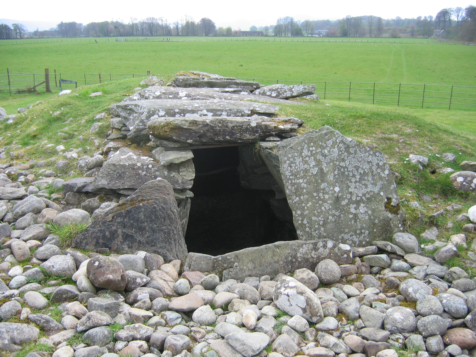 The chamber of Nether Largie South cairn, Kilmartin Glen, Scotland.